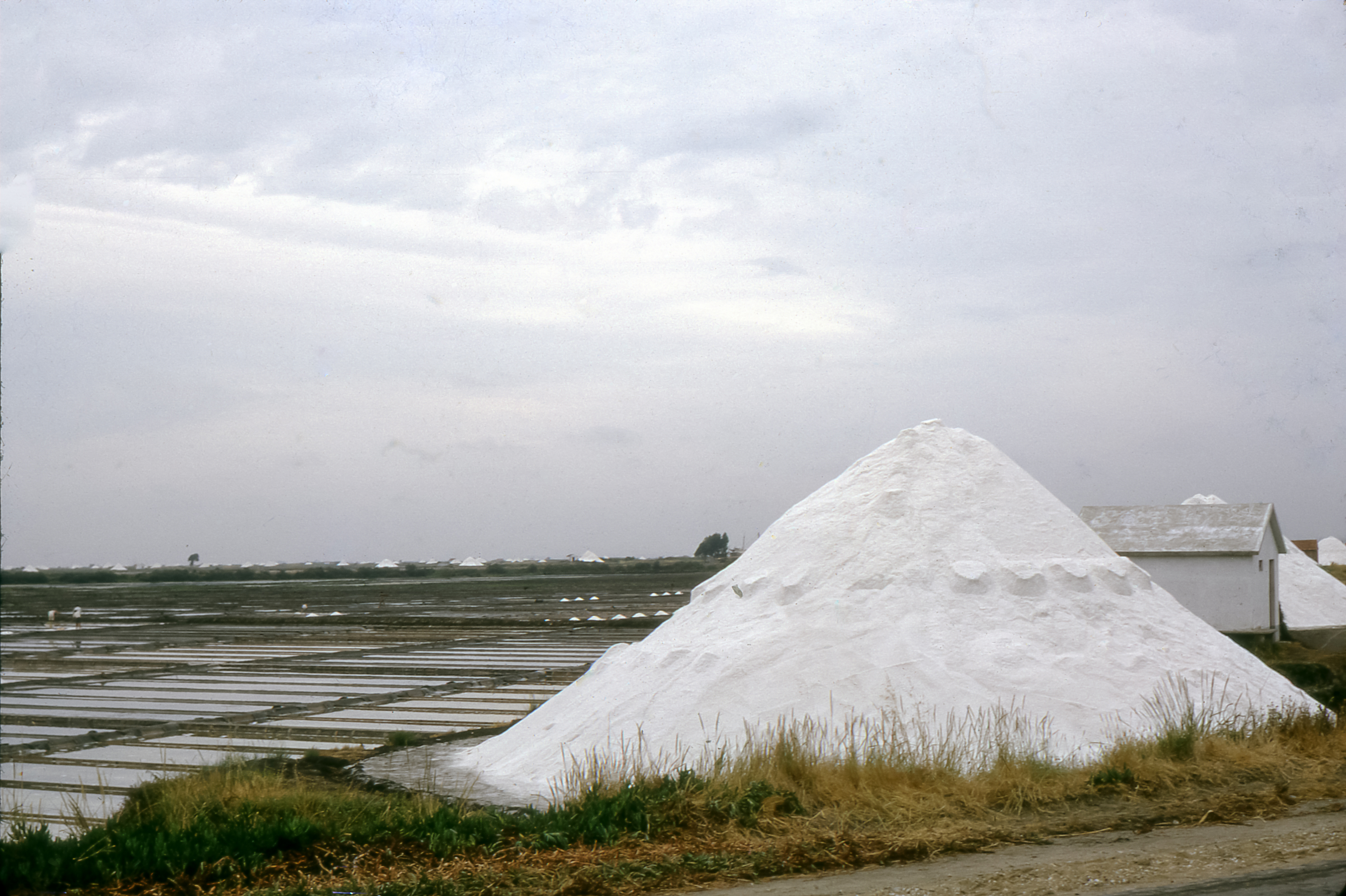 Harvesting salt in the salt marshes of Aveiro